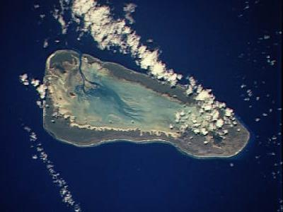 NASA astronaut image of Aldabra Atoll (Seychelles) in the Indian Ocean